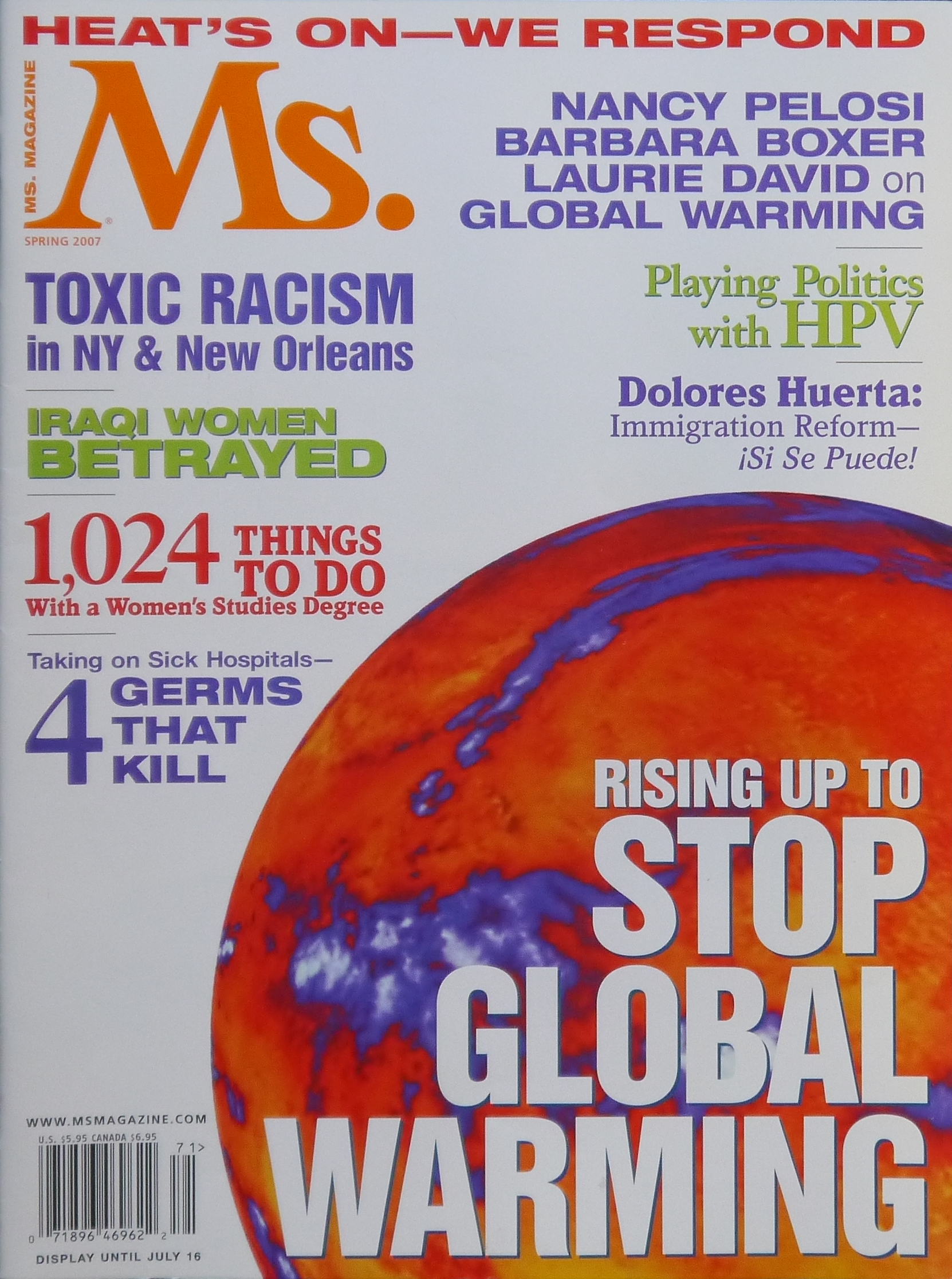 Ms. magazine, Spring 2007 "Global Warming" issue